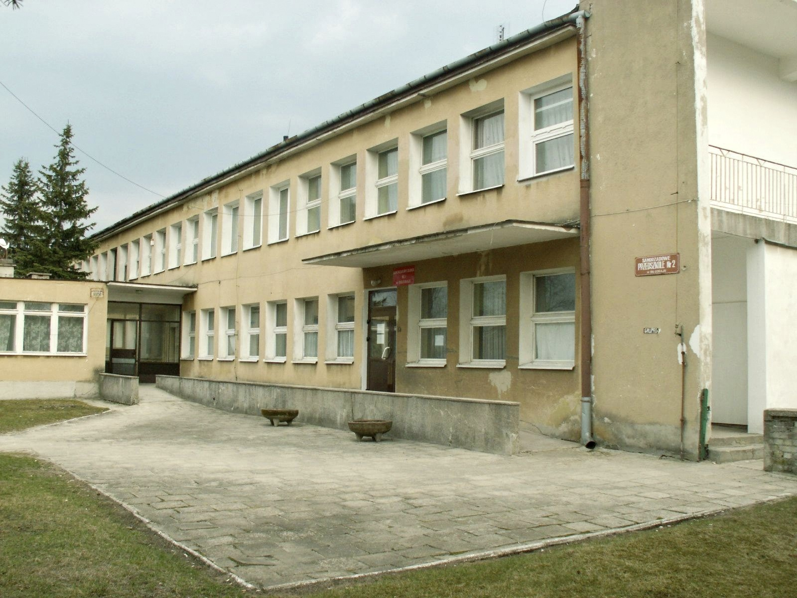 Author: "Piott"